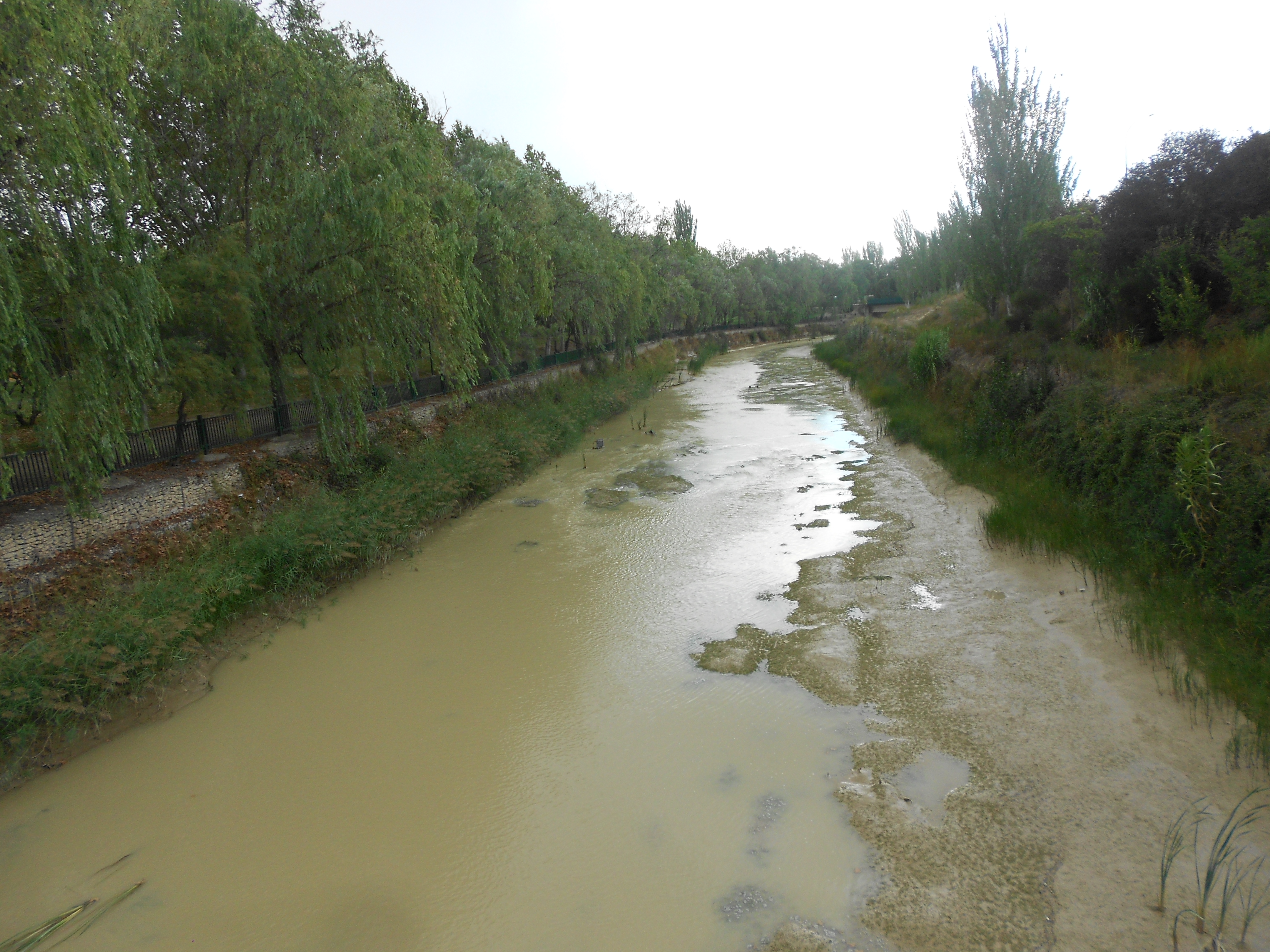 Arba de Biel river at Ejea de los Caballeros (Aragón, Spain)